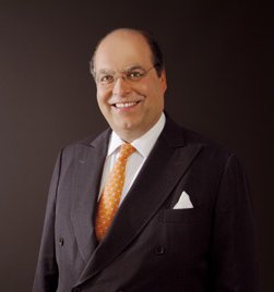 Andreas C. Wankum